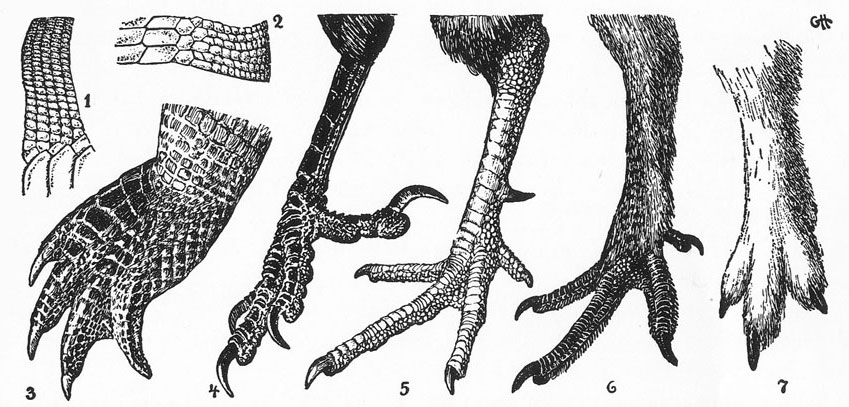 Gerhard Heilmann's comparative illustrations of the feet and scale shields of various extant birds and reptiles: green lizard (1), viviparous lizard (2), alligator (3), hooded crow (4), pheasant (5), black grouse (6), and ptarmigan (7).